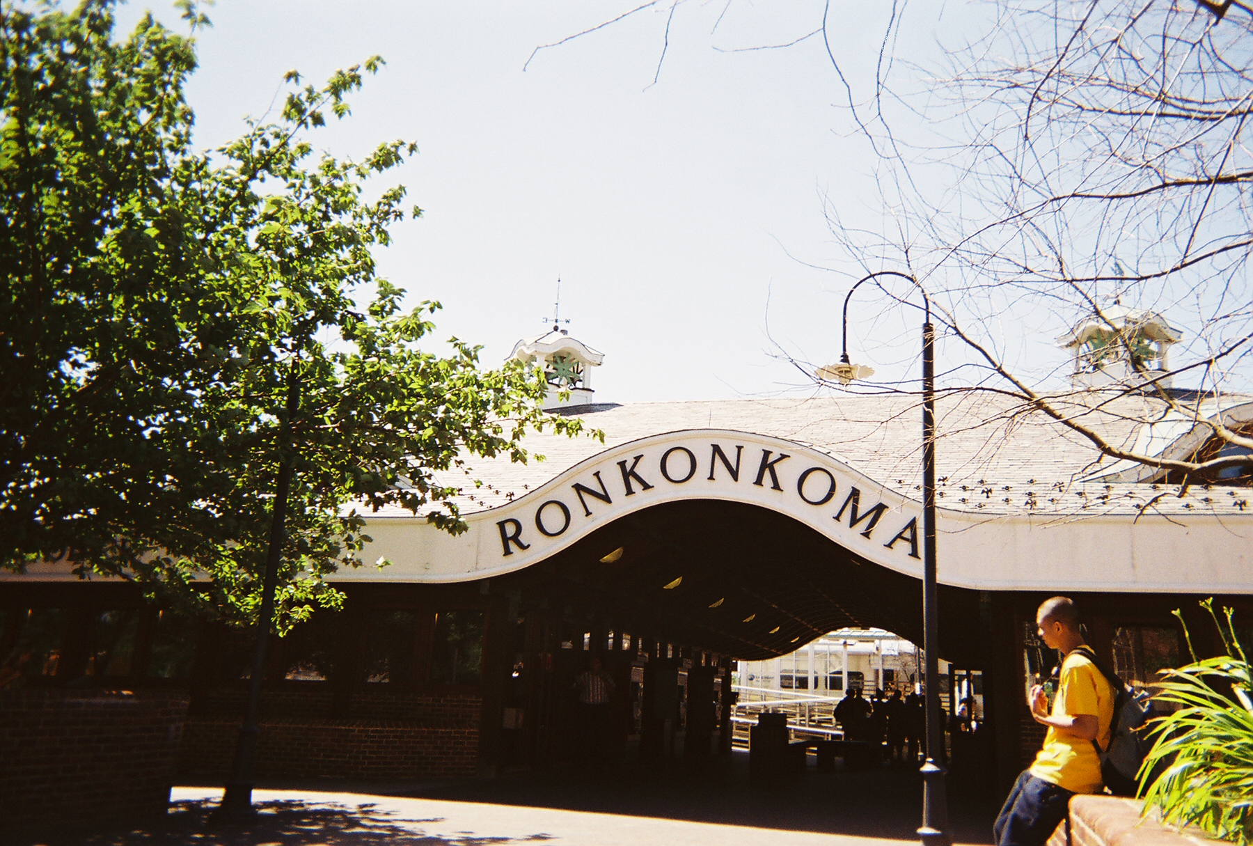 The main station house and passageway to the Long Island Railroad Station in Ronkonkoma, New York. Only one portion of a vast complex, that includes parking lots, parking garages, stores, ticket windows, pedestrian crossings, and oh yes, the Main Line of the Long Island Rail Road.